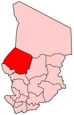 Map of Chad showing Kanem region.